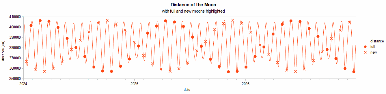 Distance of the moon obtained from JPL Horizons On-Line Ephemeris System, with full and new moons highlighted.